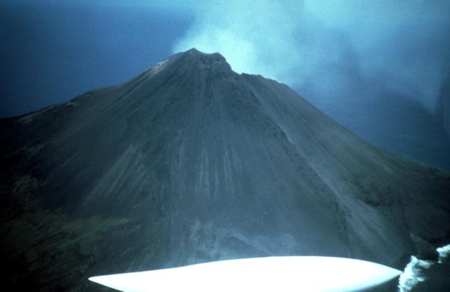 An aerial view of the Asuncion Island in the Northern Mariana Islands.